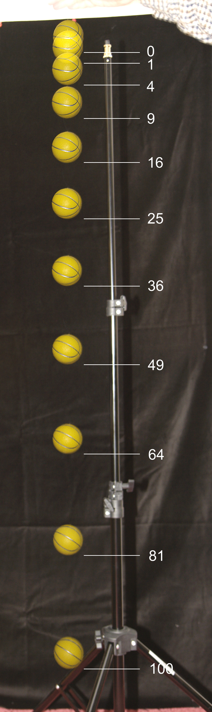 Original version of Image:Falling ball.jpg, plus scale.